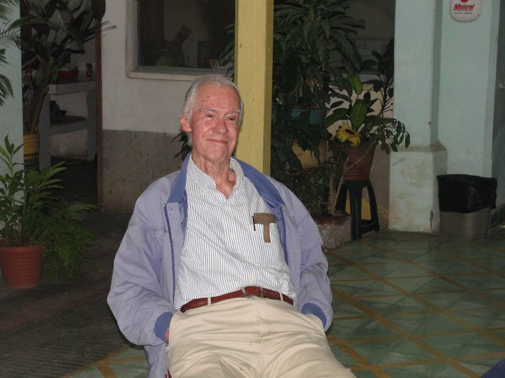 Beto Rodezno